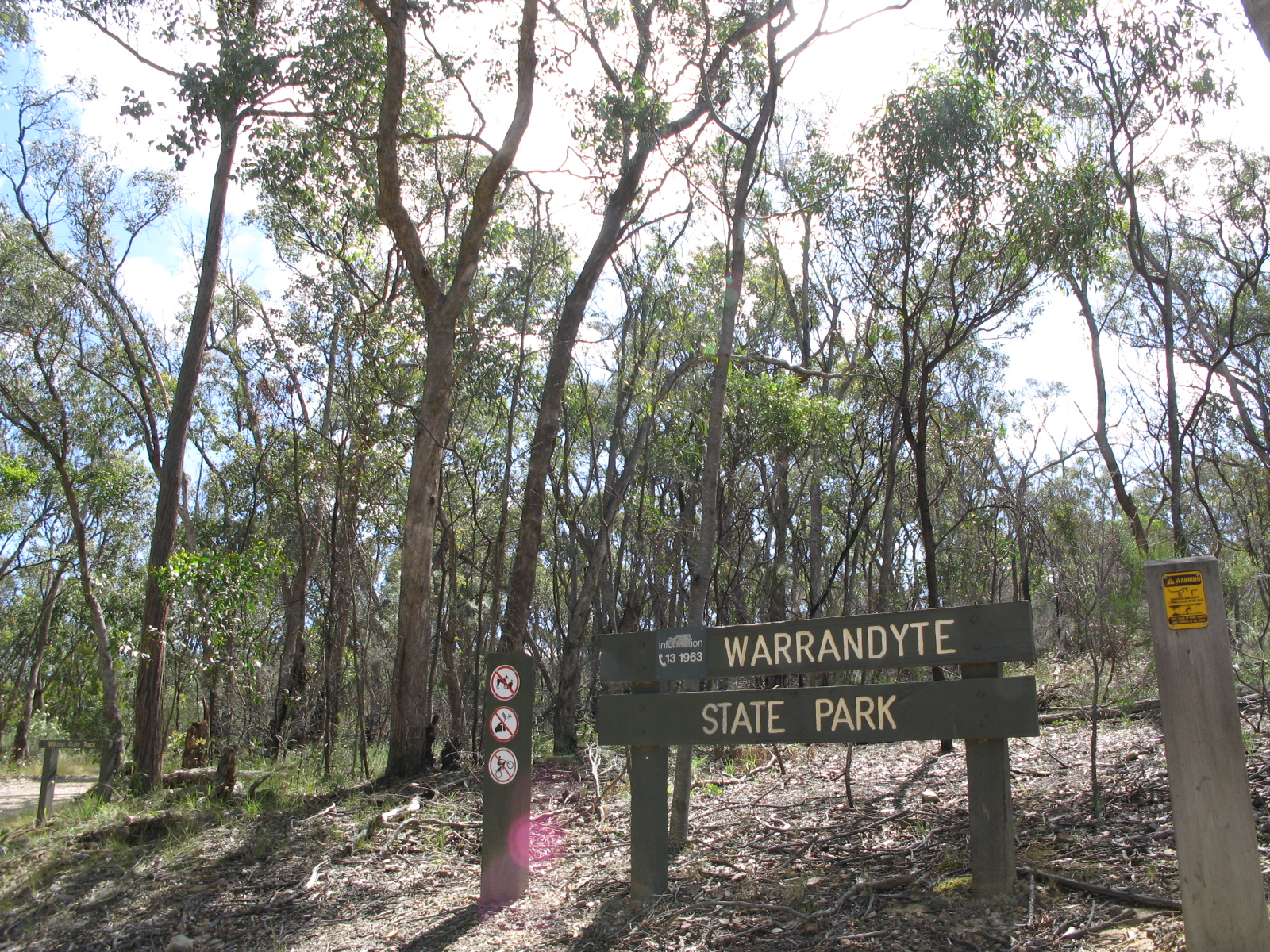 Warrandyte State Park at the tunnel street entrance. Photo taken by myself in December 2008.